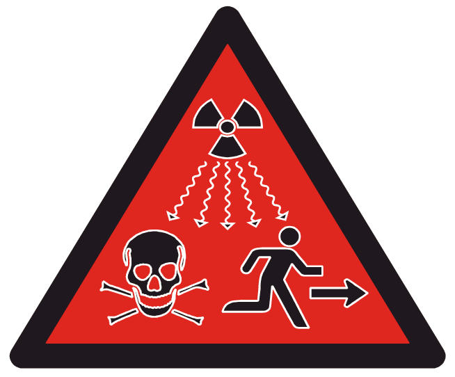 The new supplementary ionizing radiation warning symbol launched on 15 February 2007 by the International Atomic Energy Agency (IAEA) and the International Organization for Standardization (ISO). Contains radiating waves, a skull and crossbones and a running person. Note: Will only replace the standard yellow radiation trefoil symbol in certain specific limited circumstances.